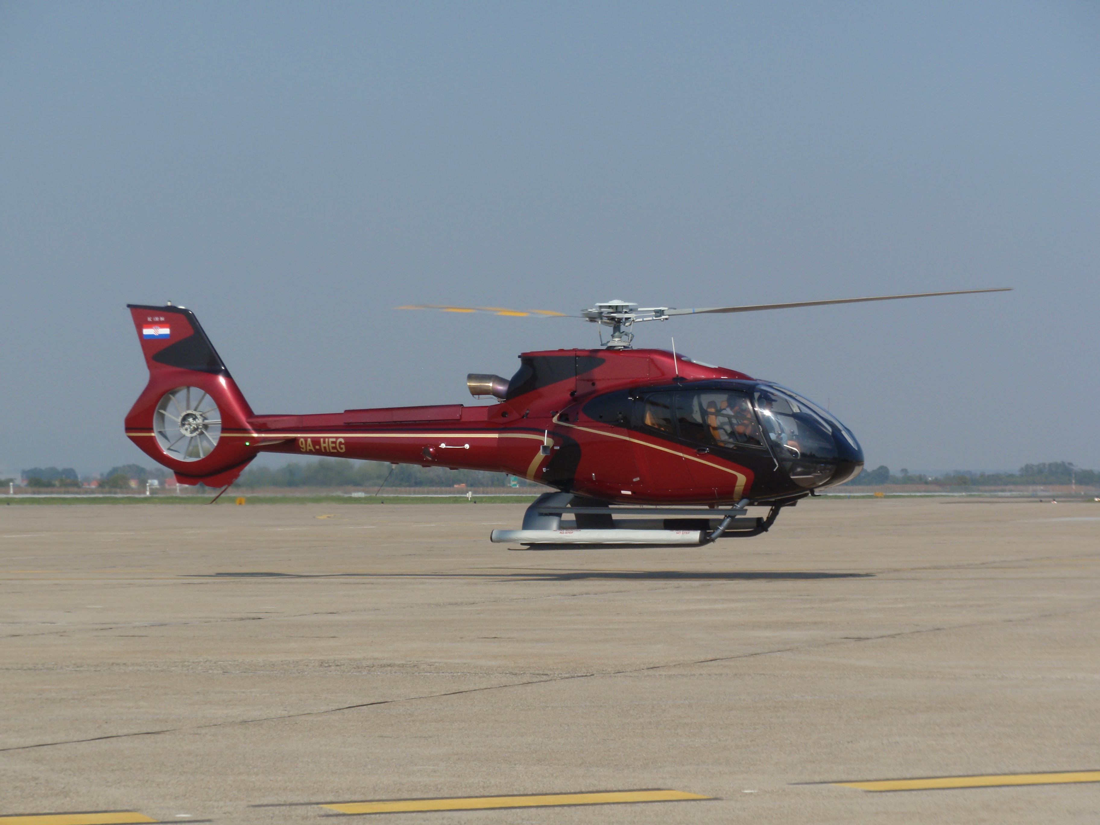 An Eurocopter 130B Ecureuil hovering at Airport Zagreb